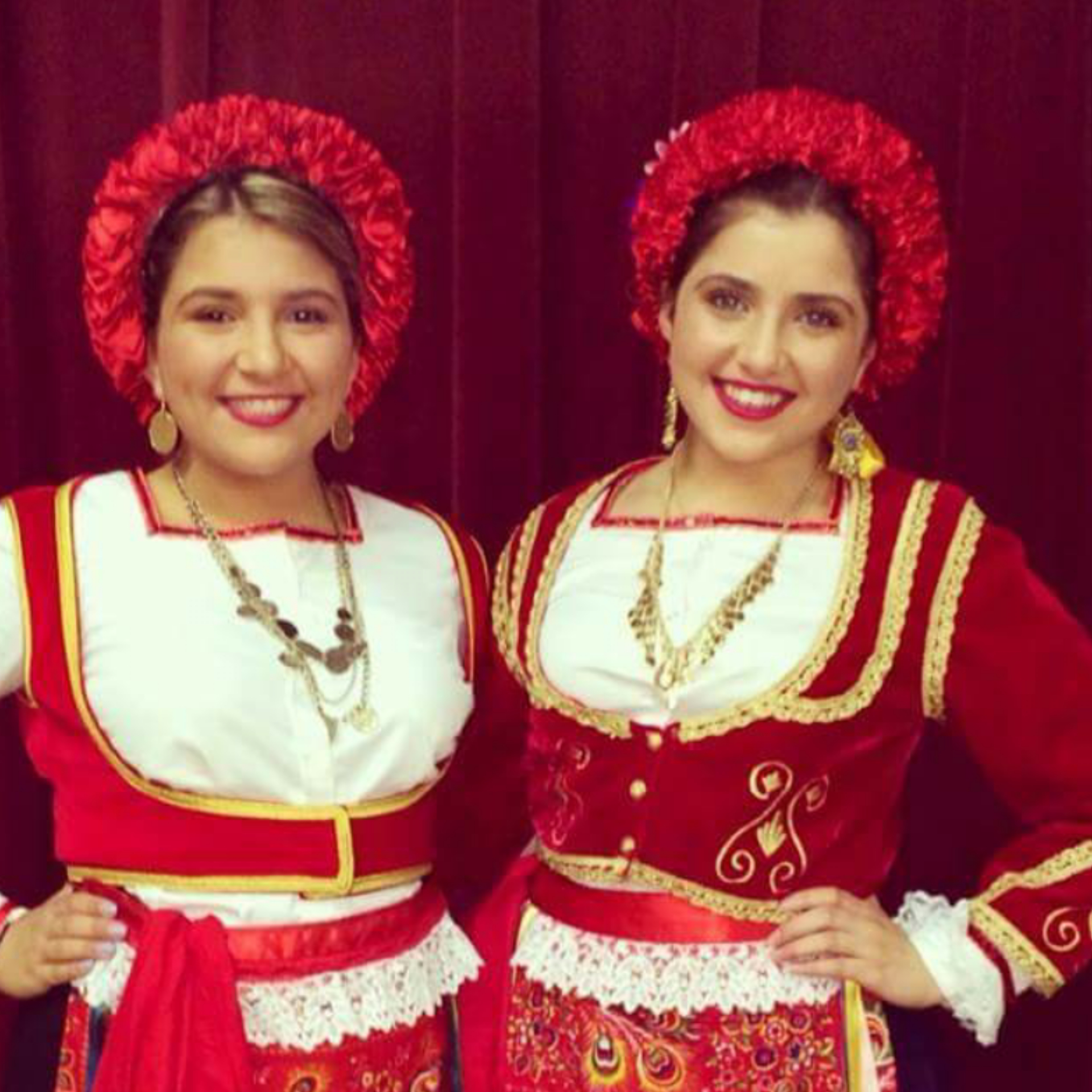 Diapontian traditional costumes (Othoni, Mathraki, Ereikousa GR)